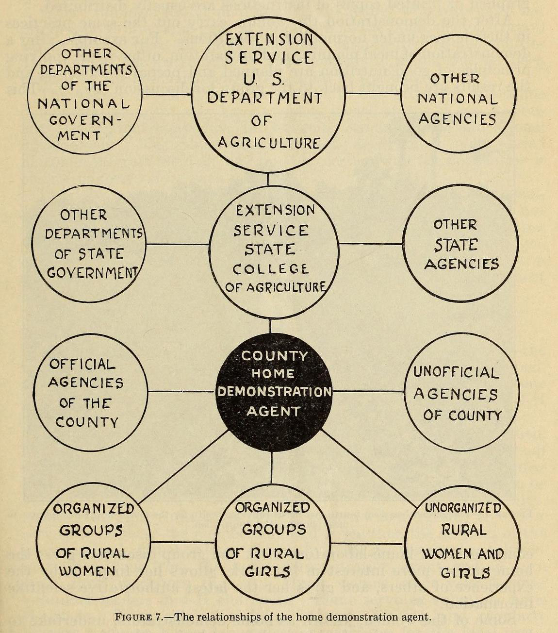 U.S. Department of Agriculture Miscellaneous Publication Number 178